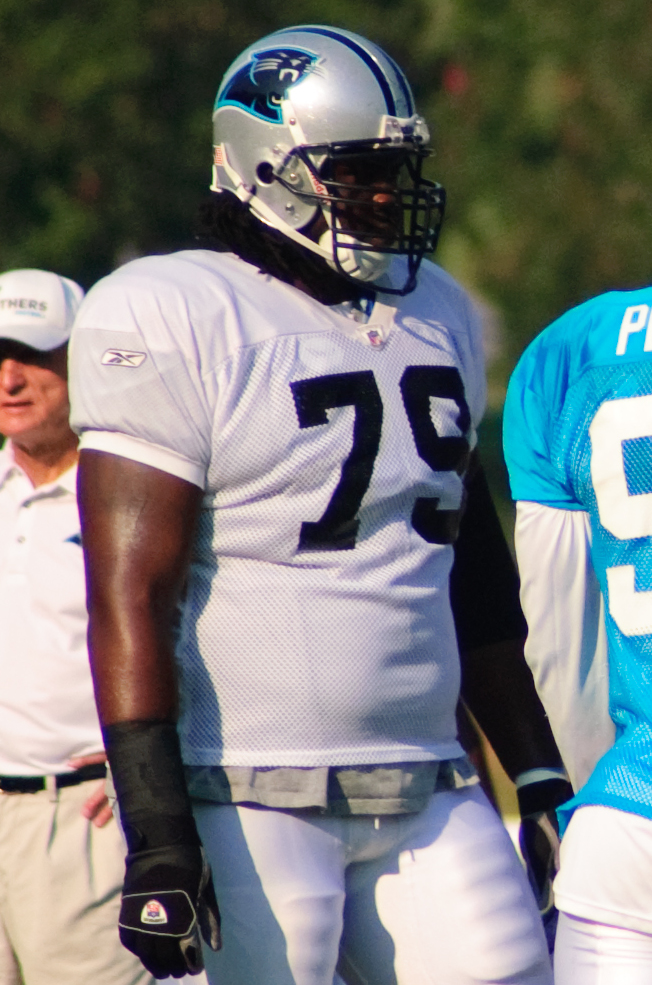 A morning at the Carolina Panther's Training Camp at Wofford College in Spartanburg, S.C. on 8/10/2009